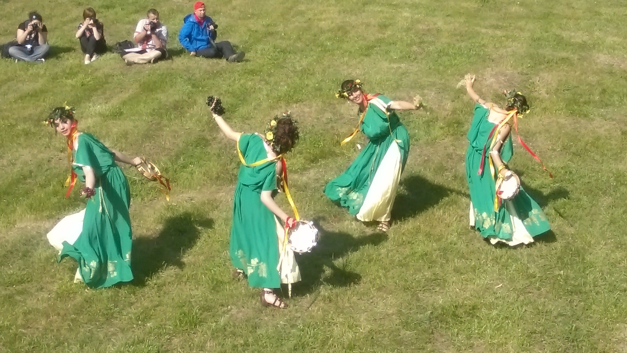 Roman dancers, Abritus historical reenactment, Razgrad